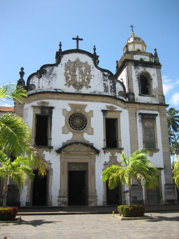 Olinda